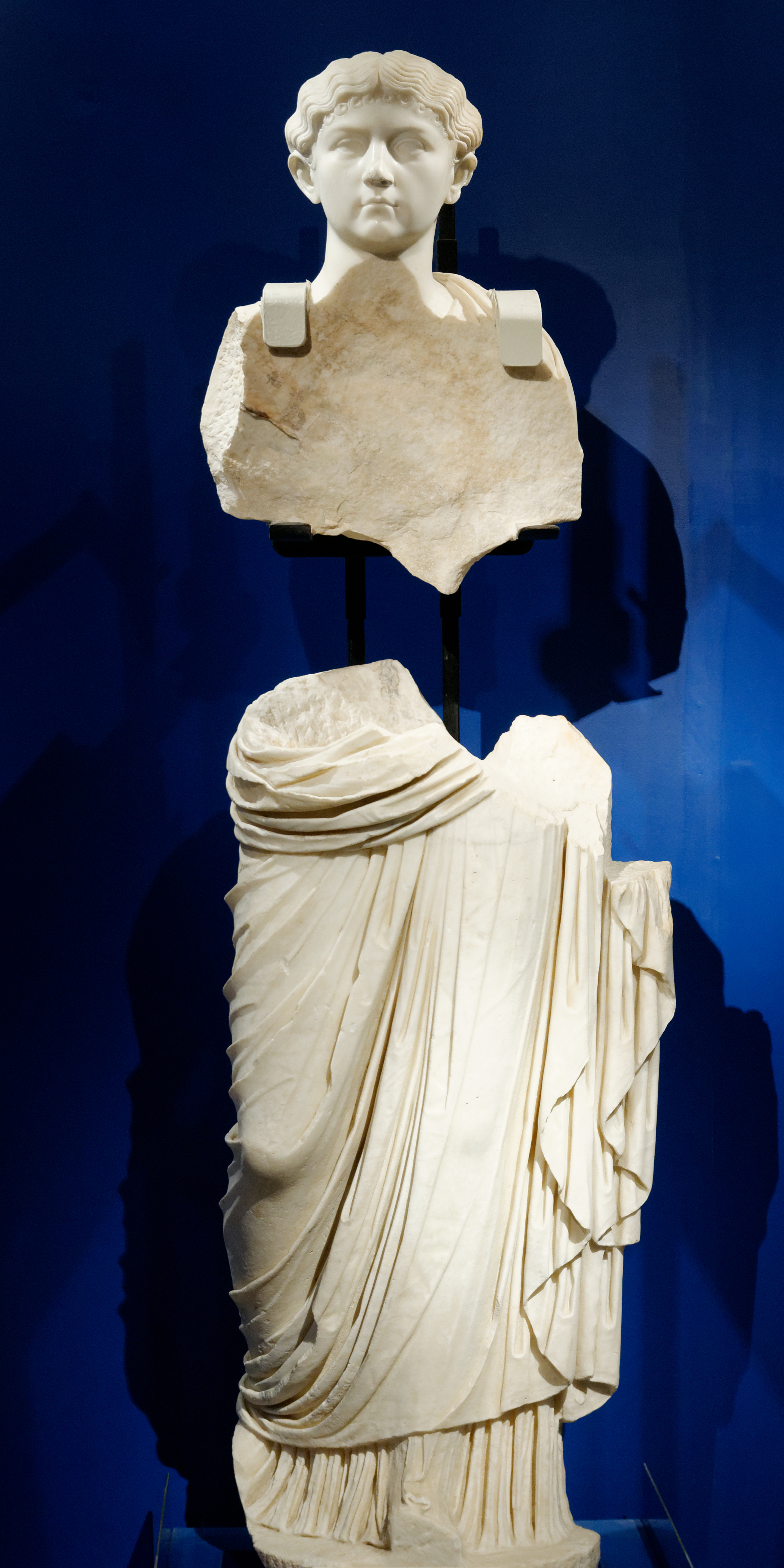 Portrait of Claudia Antonia